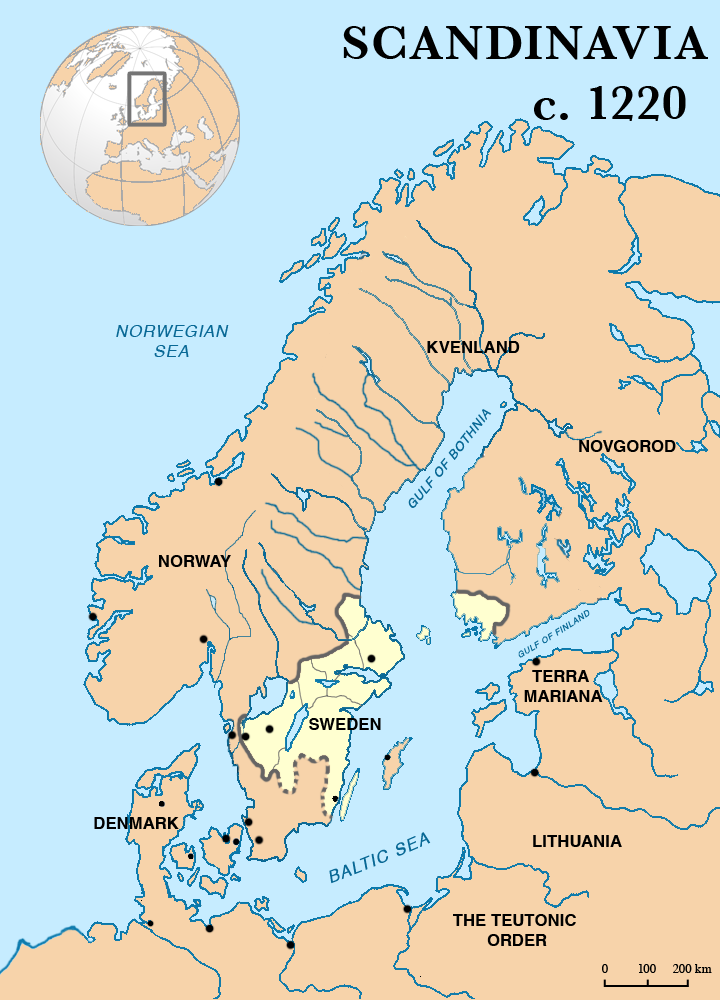 Sweden and neighboring countries in c. 1220. Source: Sundberg, Ulf (1997) (in Swedish). Svenska Freder och Stillestånd 1249-1814. Arete. ISBN 91-89080-01-7. p. 50. and Harrison, Dick (2002) (in Swedish). Jarlens sekel: en berättelse om 1200-talets Sverige [The Century of the Jarl: A History of 13th-century Sweden]. Ordfront. ISBN 978-91-7441-359-5.